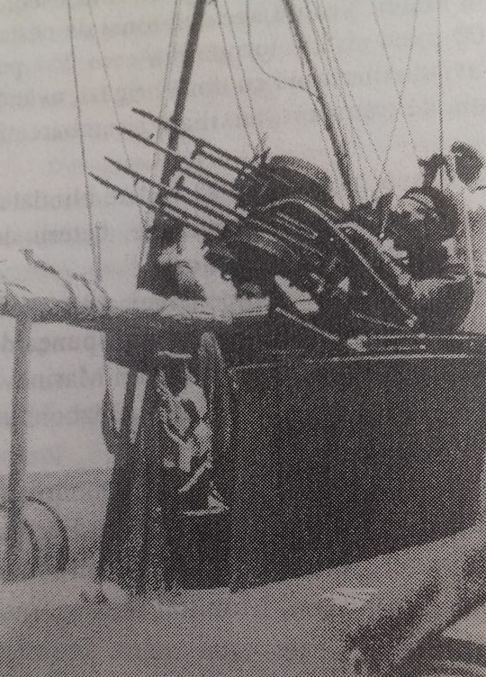 Quadruple machine gun system aboard a Romanian Vosper motor torpedo boat